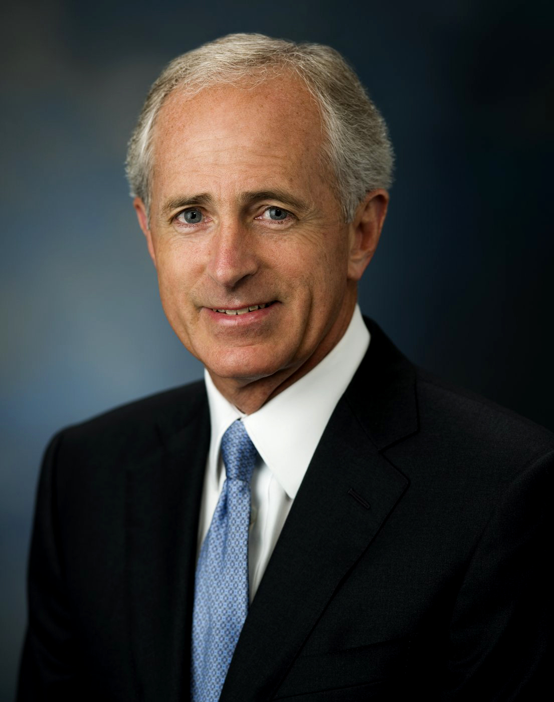 Bob Corker, United States Senator from Tennessee.